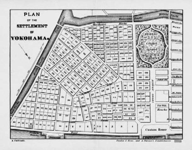 A special area in a treaty port, designated by the Japanese government in the second half of the nineteenth century, to allow foreigners to live and work. Keeling's Japan guide yokohama.